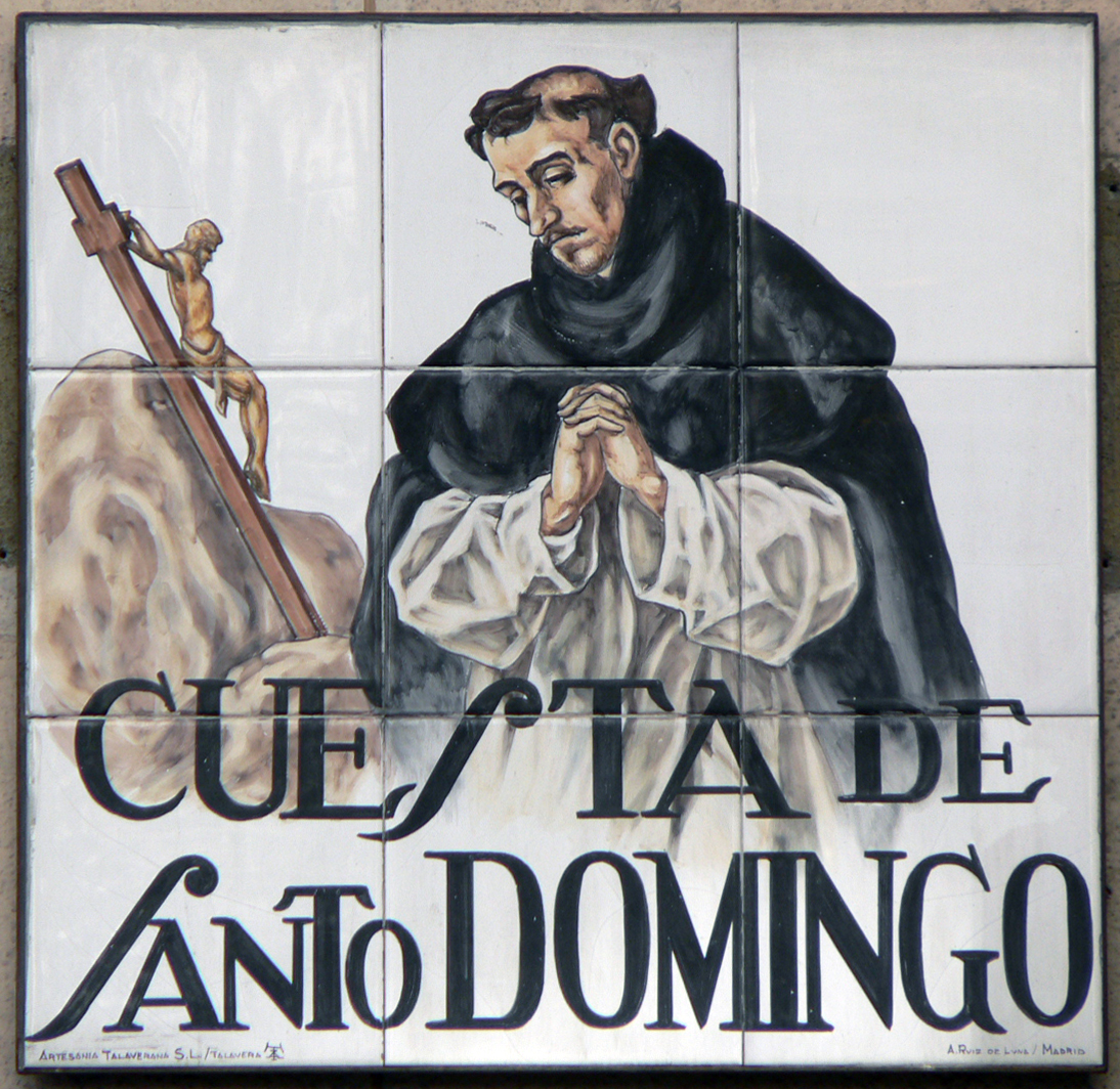 Sign of Cuesta de Santo Domingo (street, Centro district) in Madrid (Spain).